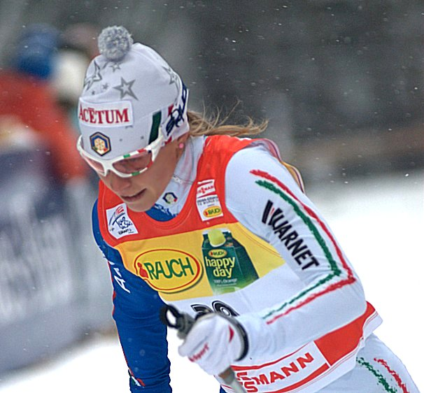 Elisa Brocard at the Tour de Ski 2010 in Oberhof